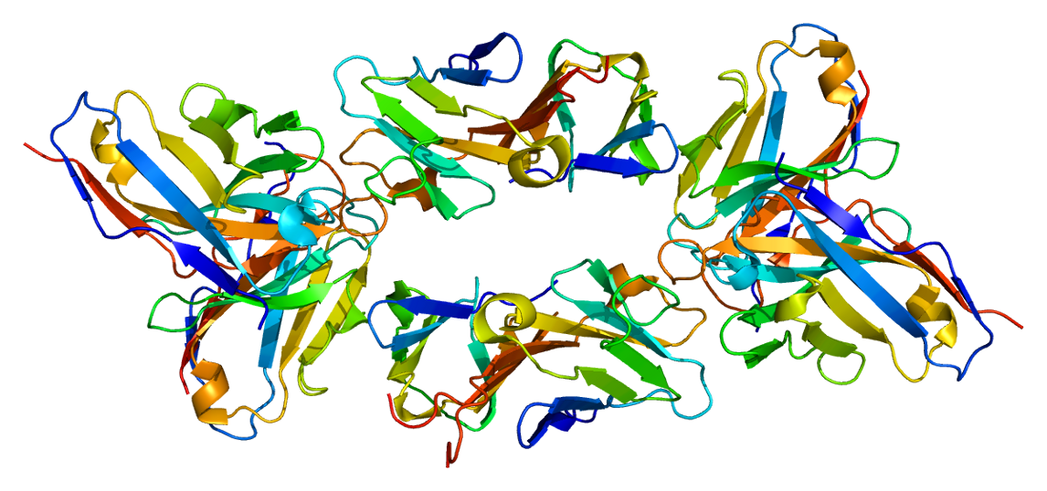 Structure of the CD3E protein. Based on PyMOL rendering of PDB 1xiw.